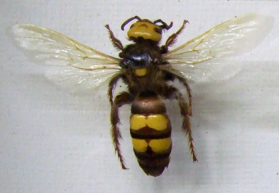 Zoological Exhibition, National Museum in Prague